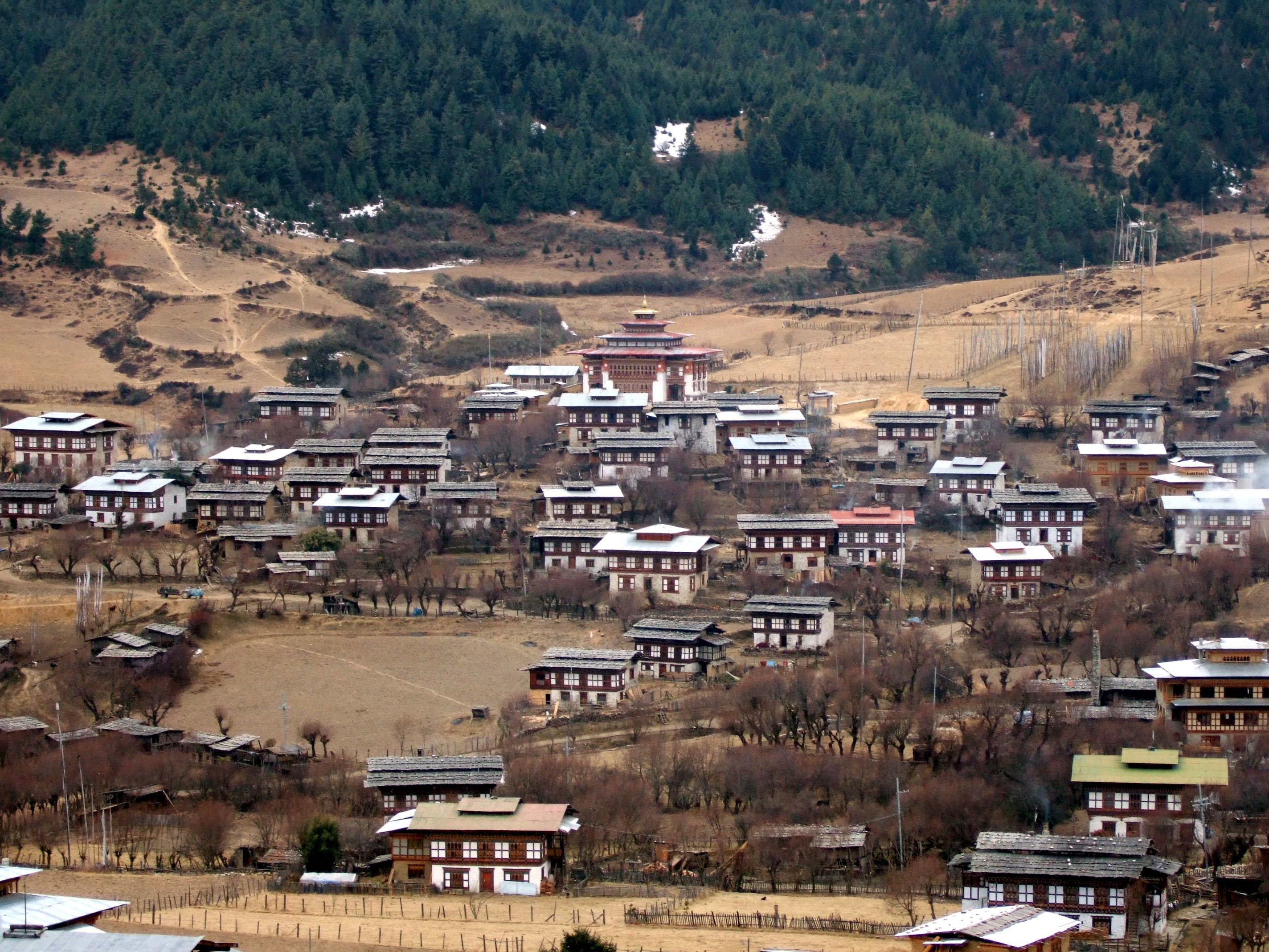 The village of Ura Makrong, Bumthang District, Bhutan. Elevation 3,100m. One of four villages in Ura Chiwog.